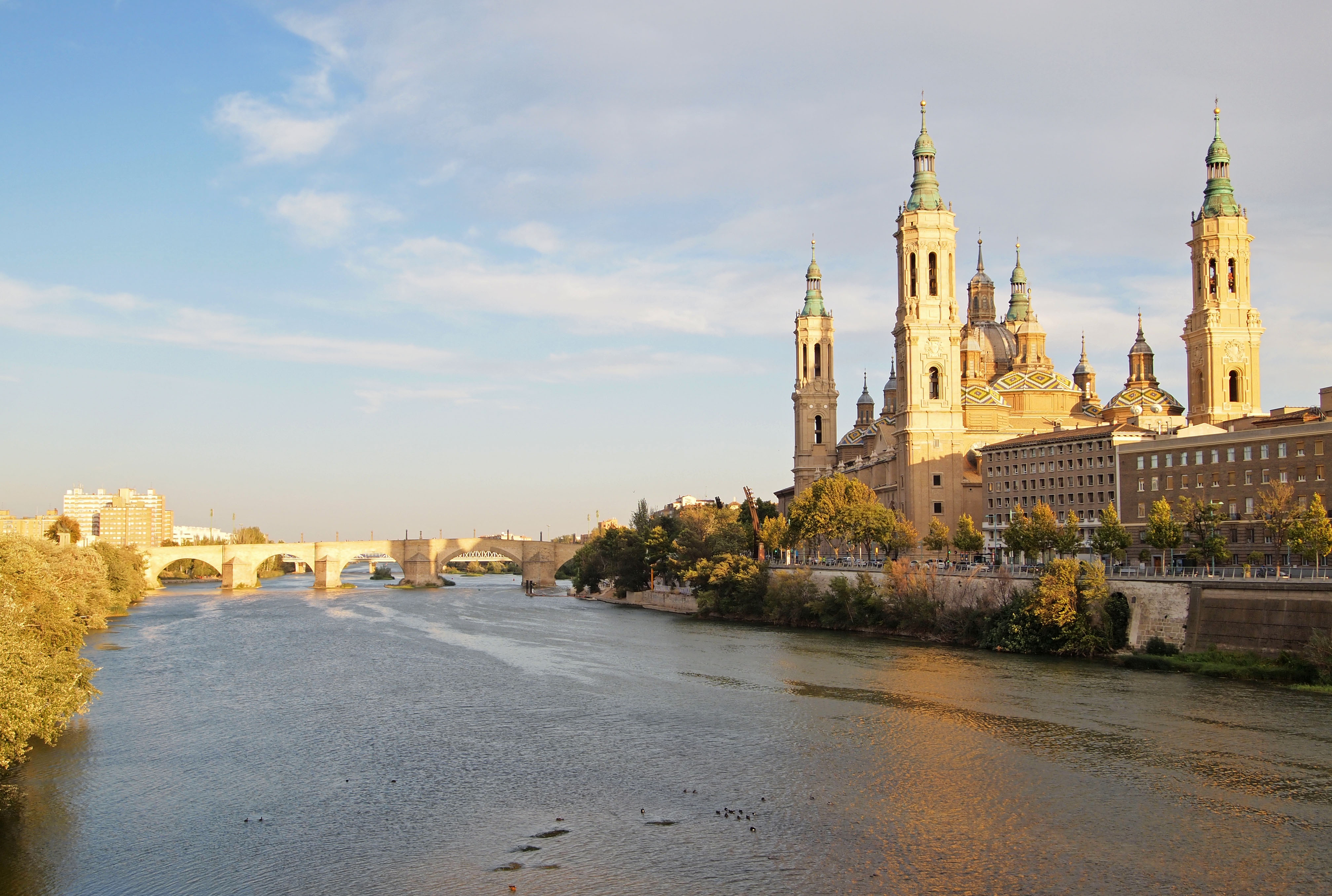 View from Puente de Santiago towards Ebro river and Nuestra Señora del Pilar in Zaragoza. This photograph was taken with an Olympus E-PL1.